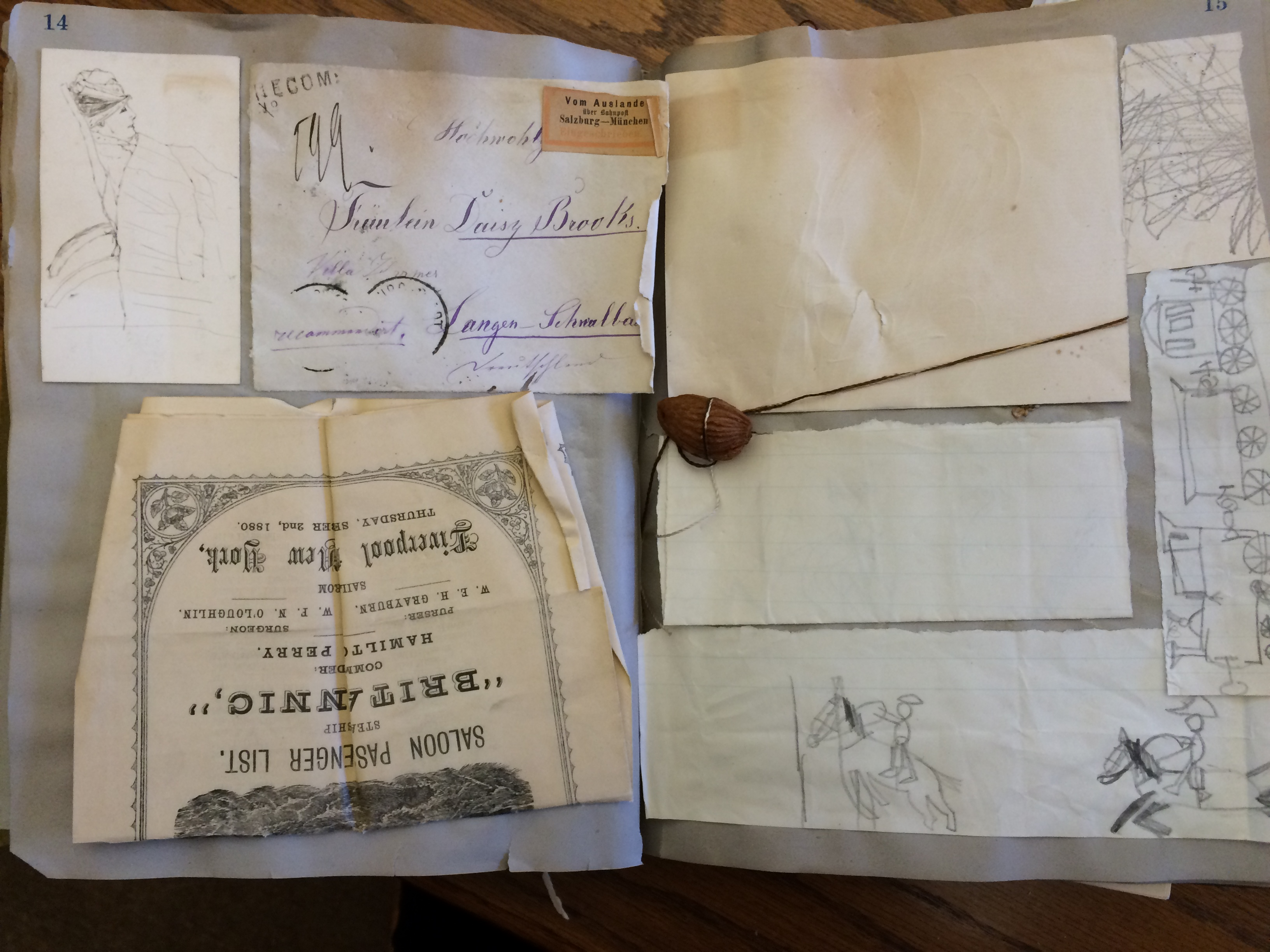 A page from the personal scrapbook of Hannah de Rothschild Scharps, Smith College class of 1906, Smith College Archives, Sophia Smith Collection.